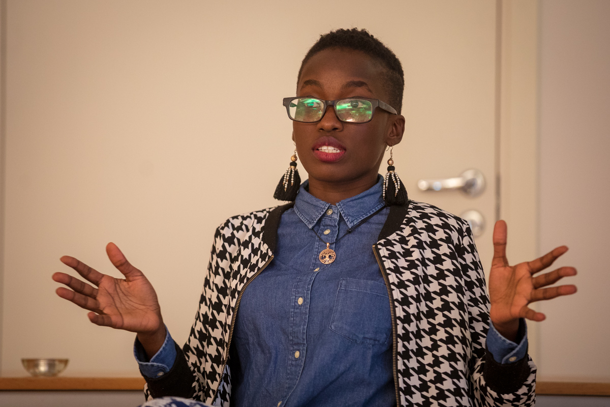 Conversation between OluTimehin Adegbeye and Aslak Sira Myhre at Norwegian Council for Africa. The event took place on September 21, 2018.